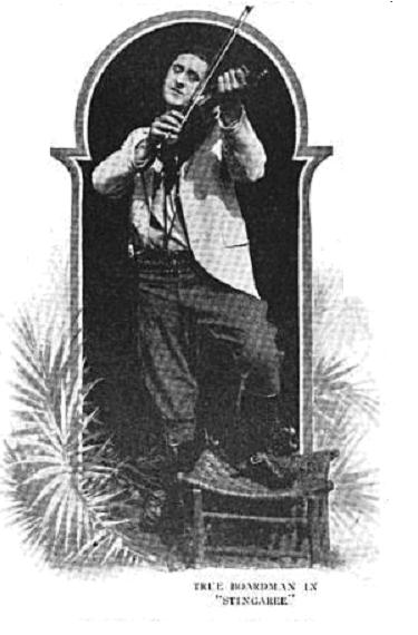 True Boardman as "Stingaree." i1915